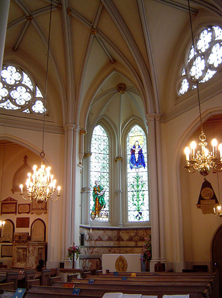 Interior of St Bartholomew-the-Less, City of London Image by ChrisO